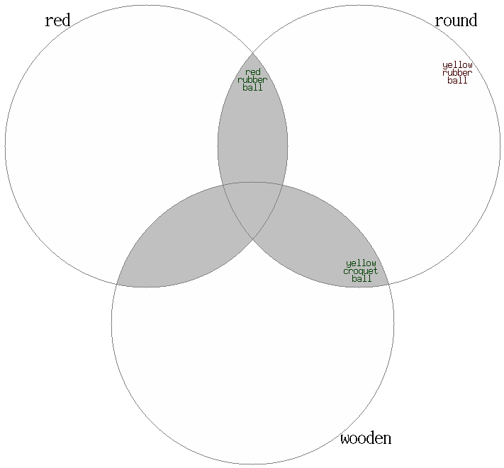 Goodman's counter-example against a definition of "natural kind" based on Carnap; explained in Quine's article "Natural Kinds" (1970, p.45).